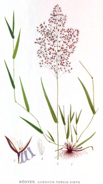 Agrostis tenuis from Bilder ur Nordens Flora / (1917-1926) Author: C. A. M. Lindman